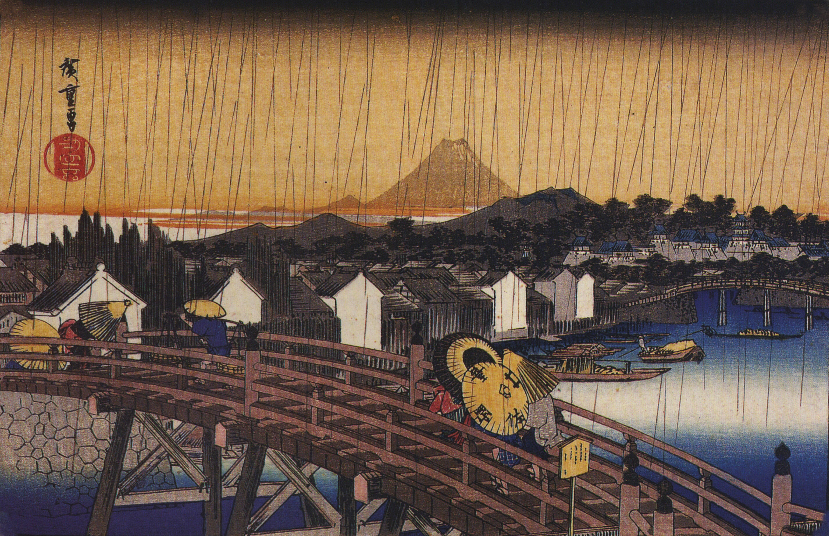 Hiroshige, A bridge in the rain